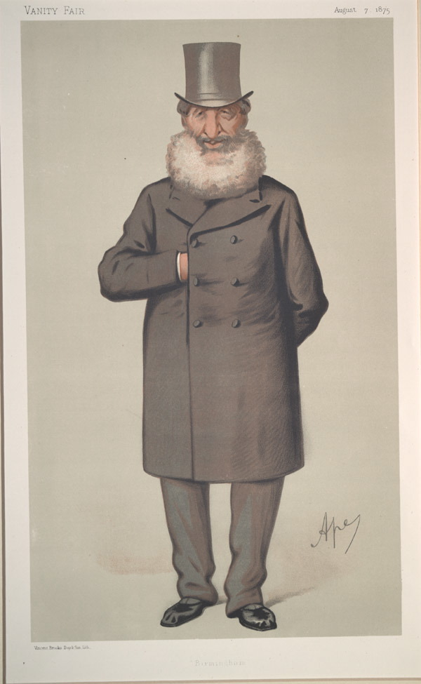 Statesmen No.210: Caricature of Mr Philip Henry Muntz MP. Caption reads: "Birmingham"